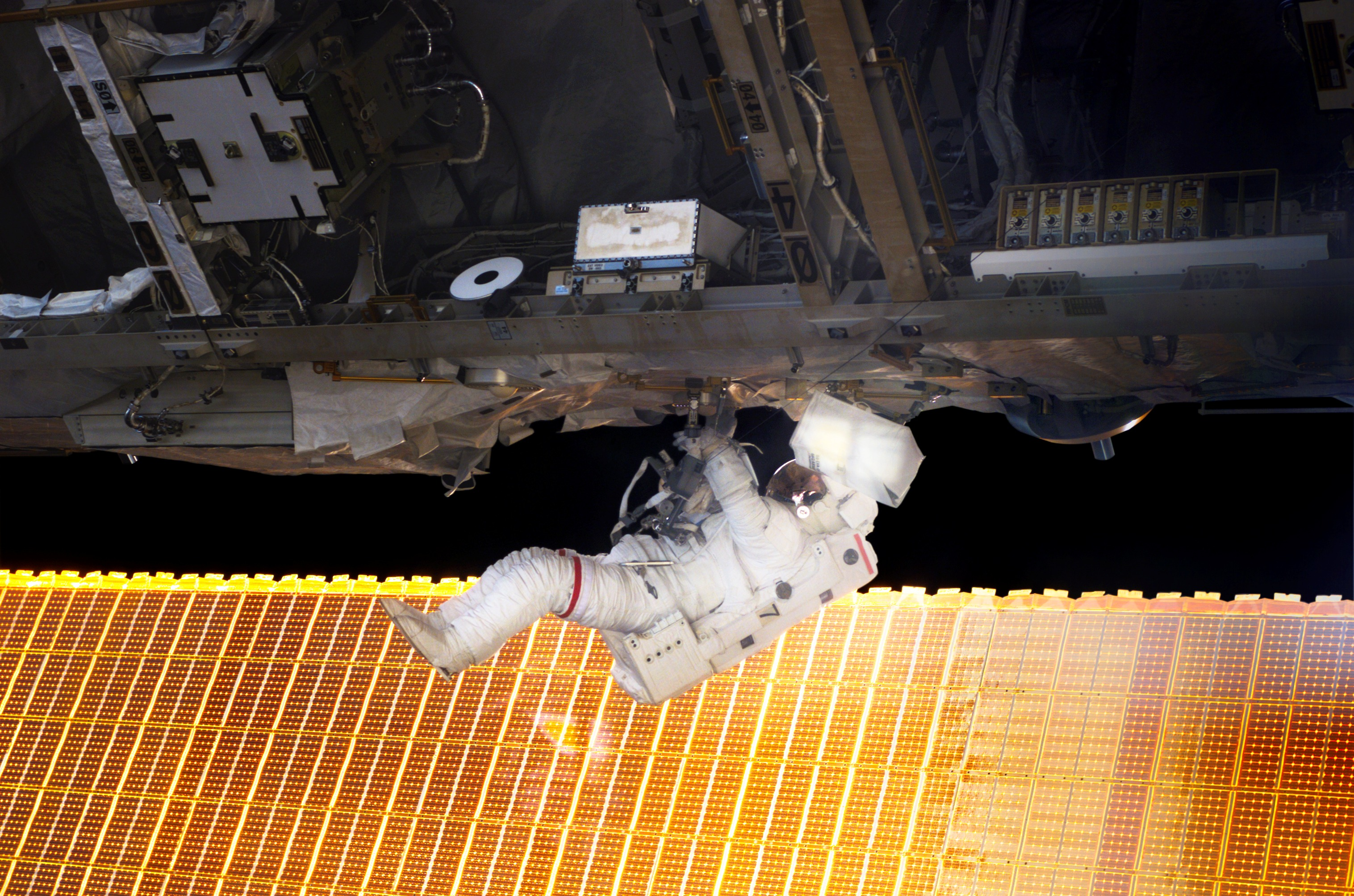 Astronaut Soichi Noguchi, STS-114 mission specialist representing Japan Aerospace Exploration Agency (JAXA), participates in the mission’s first scheduled session of extravehicular activity (EVA). Noguchi and crewmate Stephen K. Robinson (out of frame) completed a demonstration of Shuttle thermal protection repair techniques and enhancements to the International Space Station’s attitude control system during the successful 6-hour, 50-minute spacewalk.